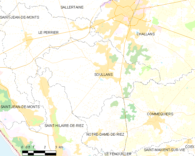 Map of French municipality Soullans